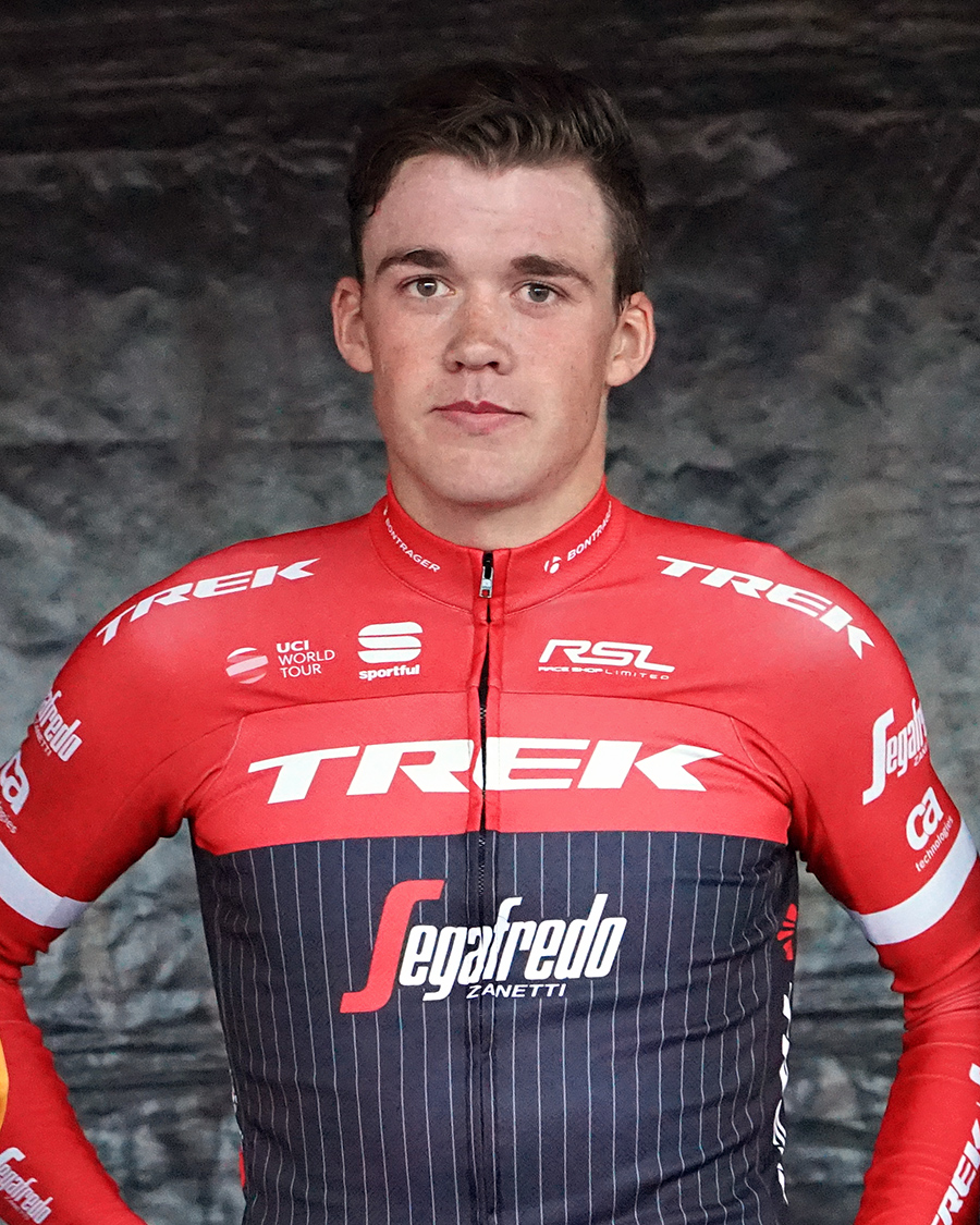 Mads Pedersen from "Trek-Sagafredo" - Danish racing cyclist at "Stjerneløbet" 14th June 2017 in Roskilde, Denmark